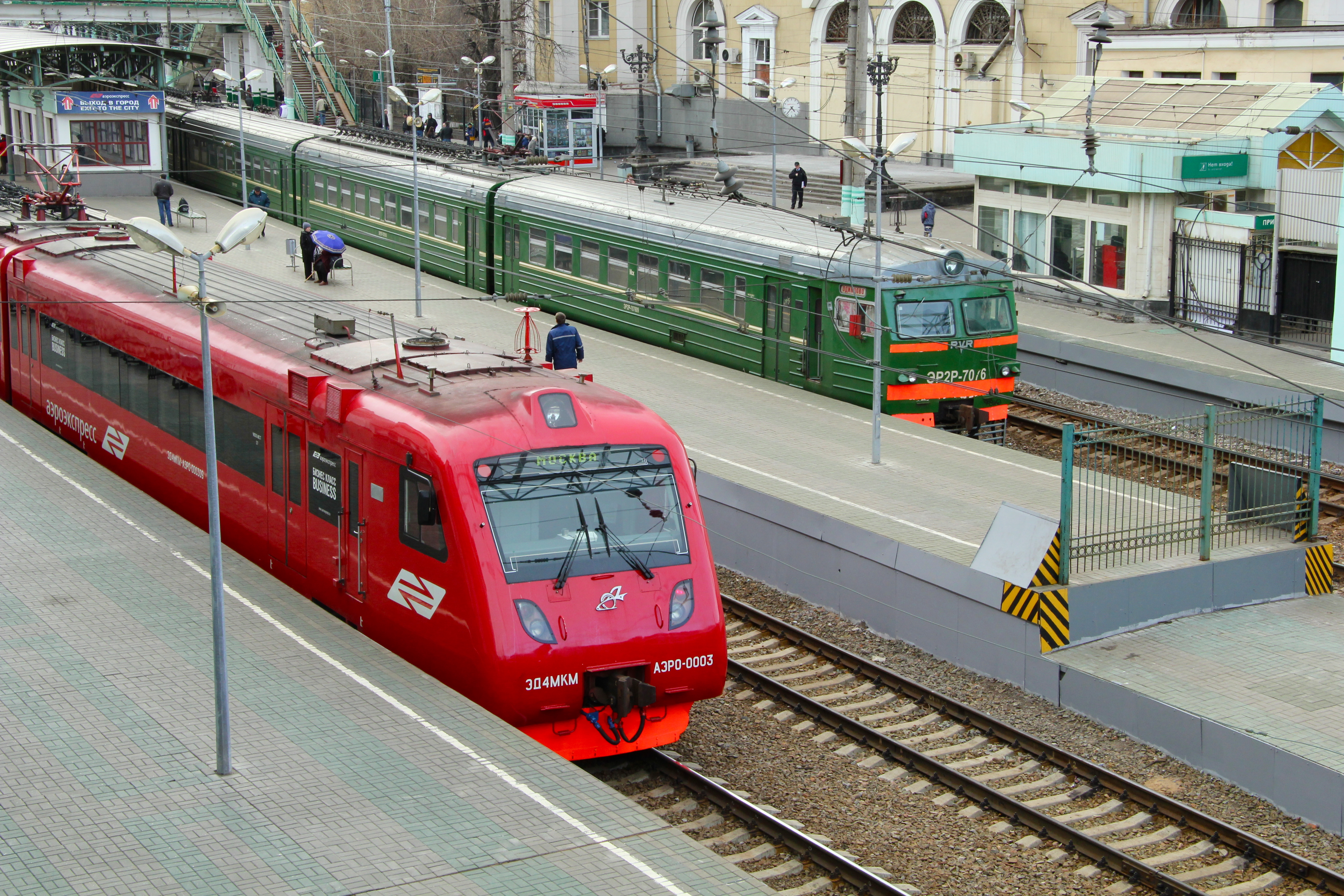 ED4MKM "Aeroexpress" train to Sheremetyevo airport and ER2R local train to Odintsovo